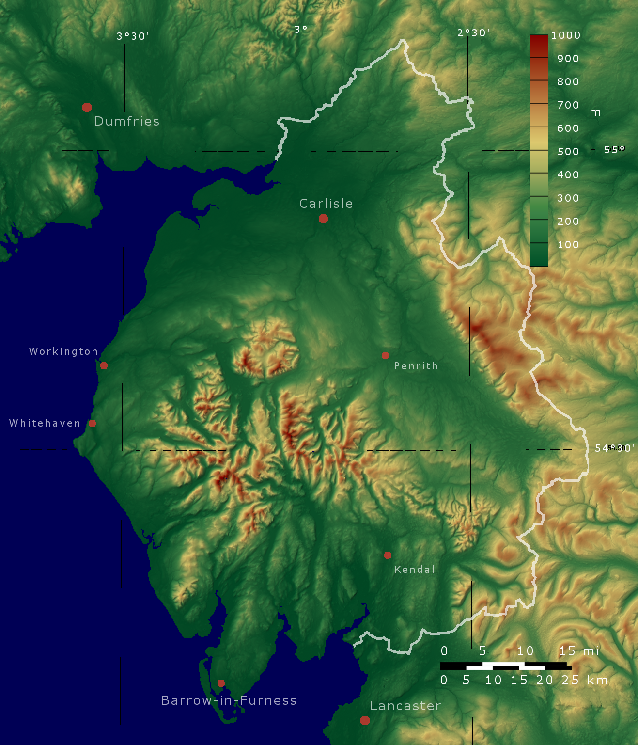 Map created with 3DEM from SRTM ( Administrative boundaries from OpenStreetMap.